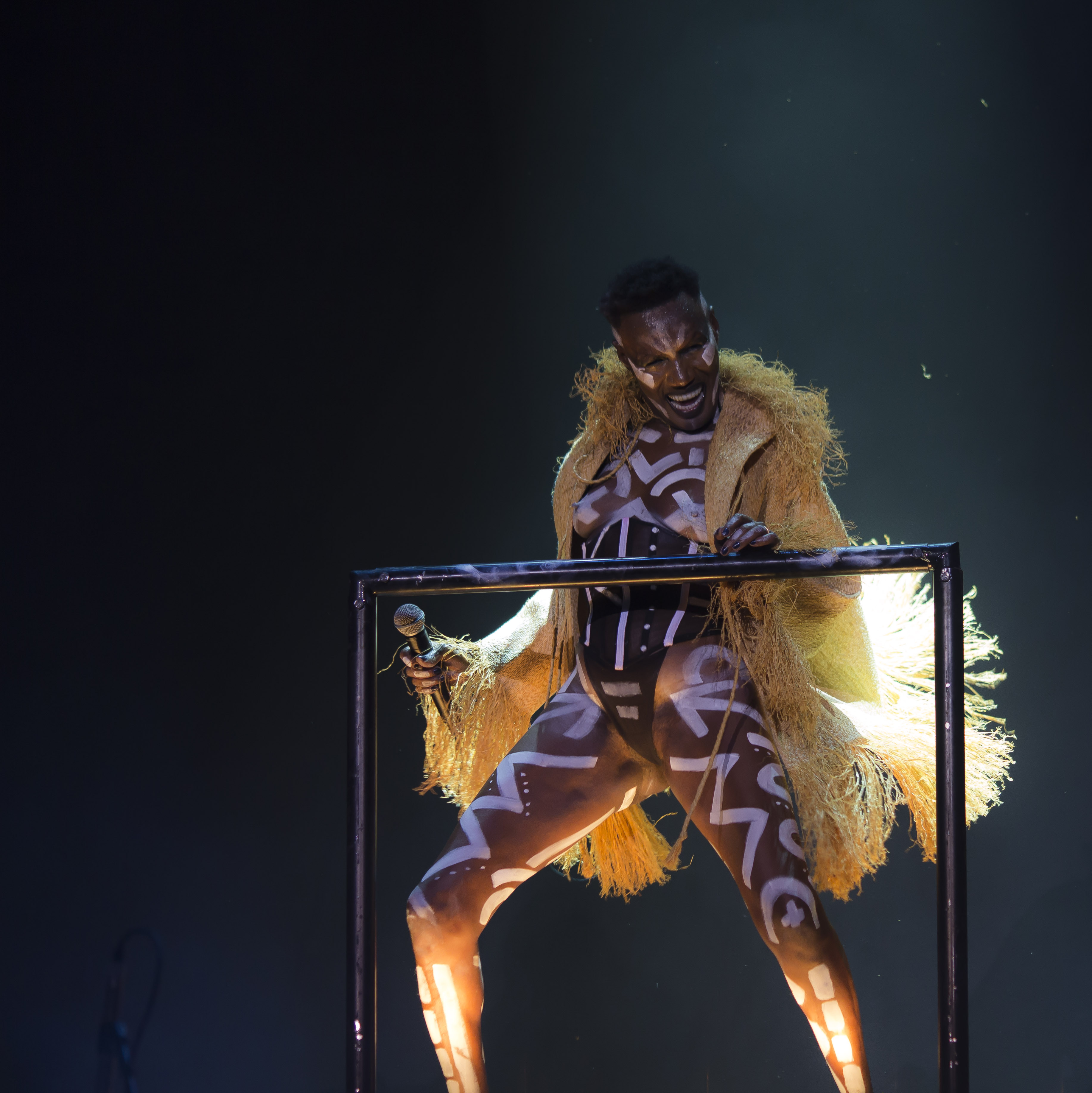 Grace Jones at Carriageworks (Vivid) - 1st June 2015